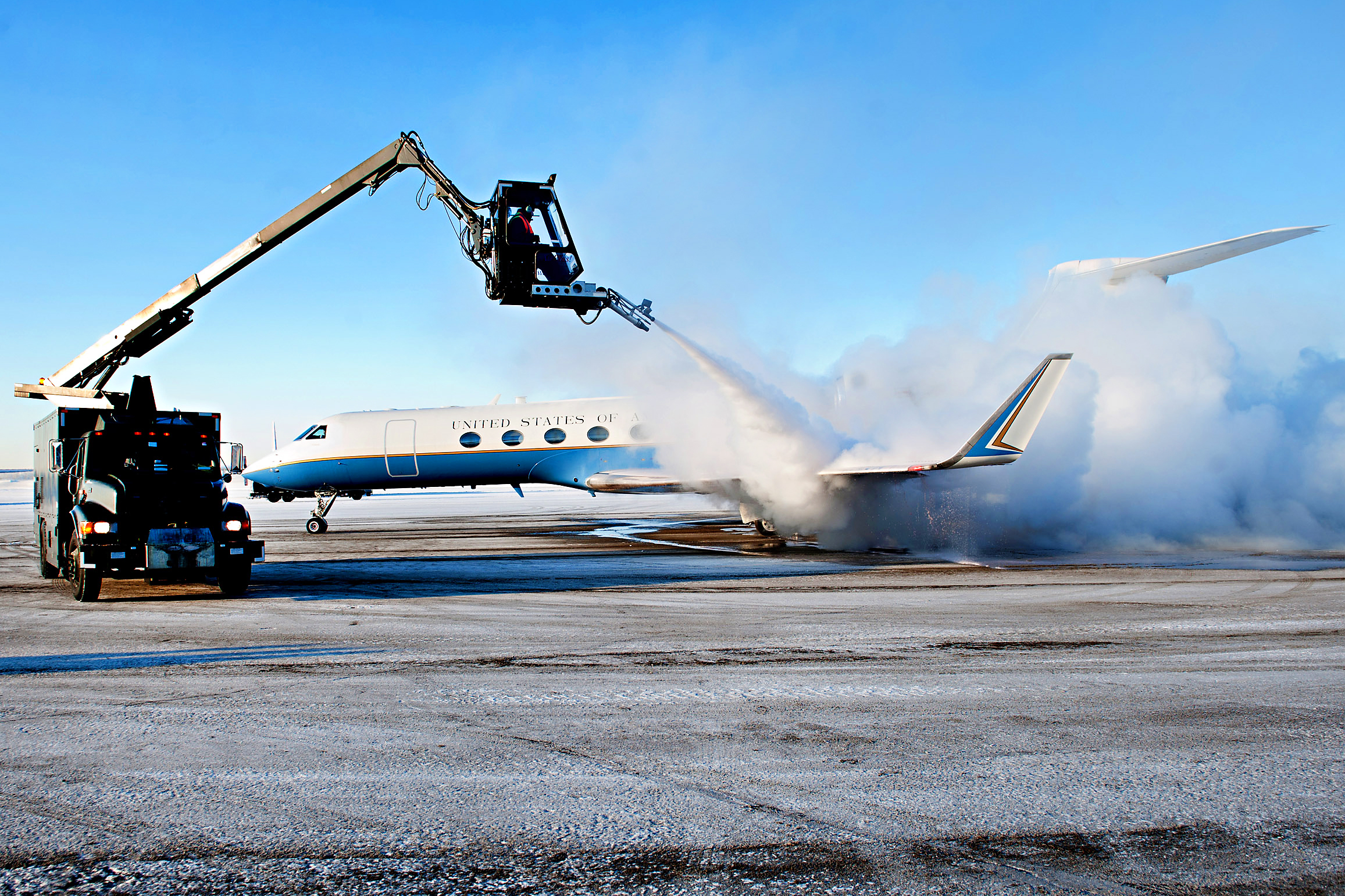 A U.S. Army C-37B aircraft transporting Army Chief of Staff Gen. Raymond T. Odierno, gets de-iced before it departs Joint Base Elmendorf-Richardson, Alaska, Jan. 20, 2012.